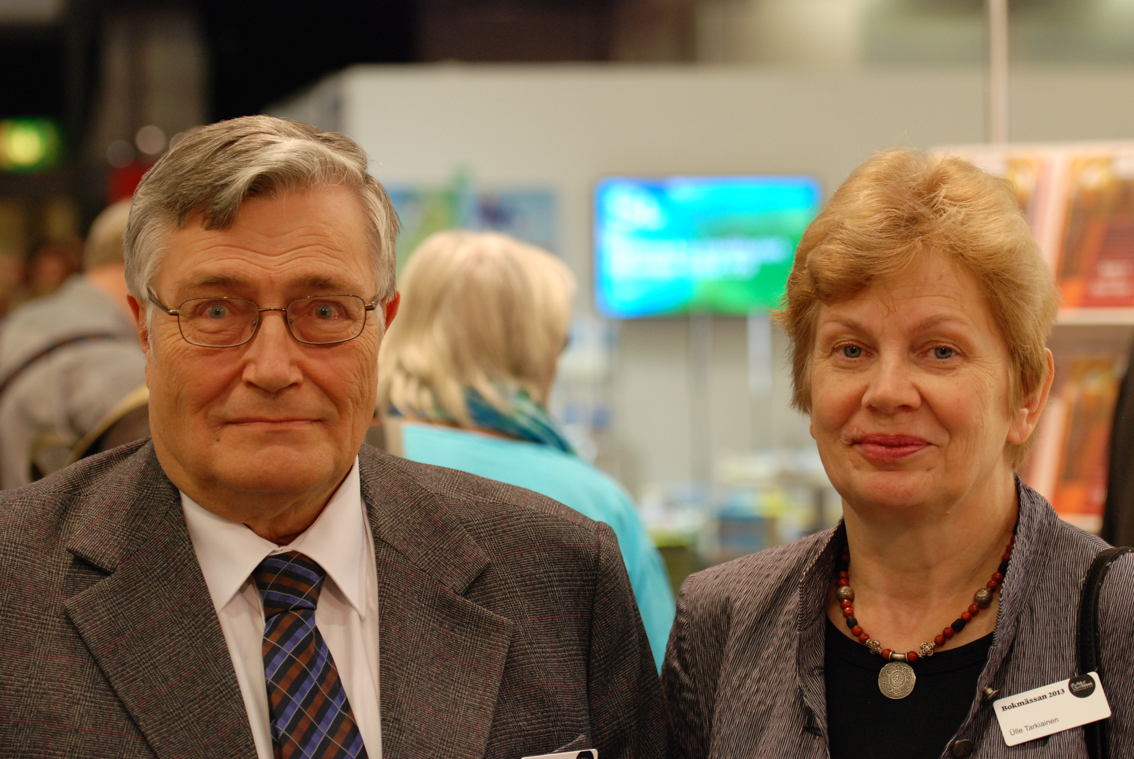 The Finnish historian Kari Tarkiainen with his wife Ülle at Göteborg Book Fair 2013.